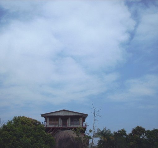 The house over the stone. Puerto Ayacucho, Amazonas state. Venezuela.